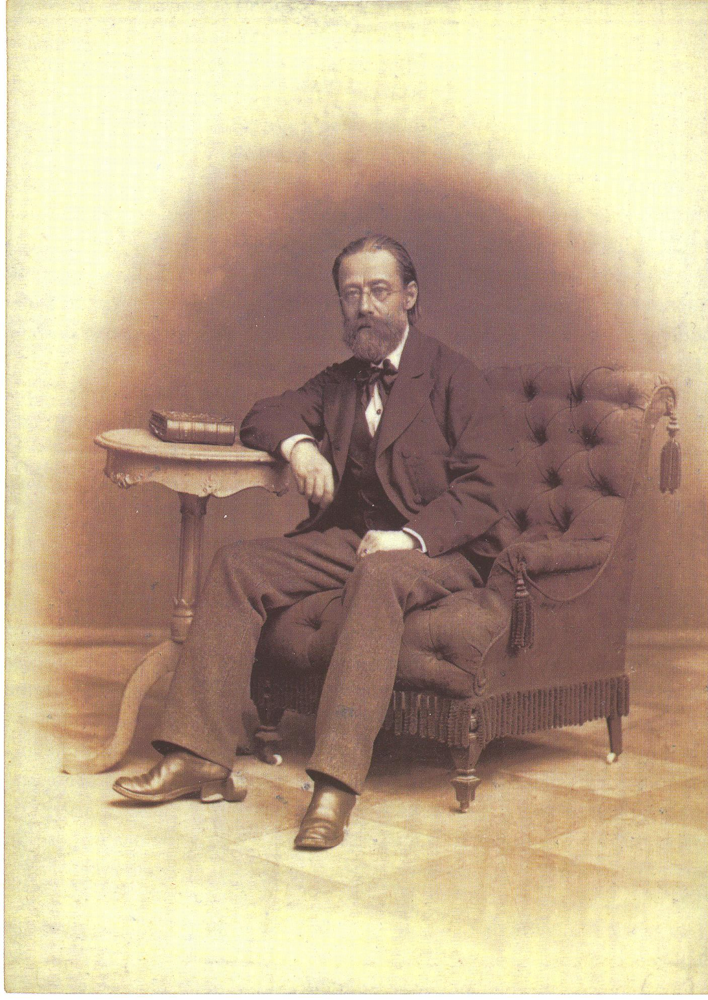 Bedřich Smetana (1882). Photograph by Jan Mulač